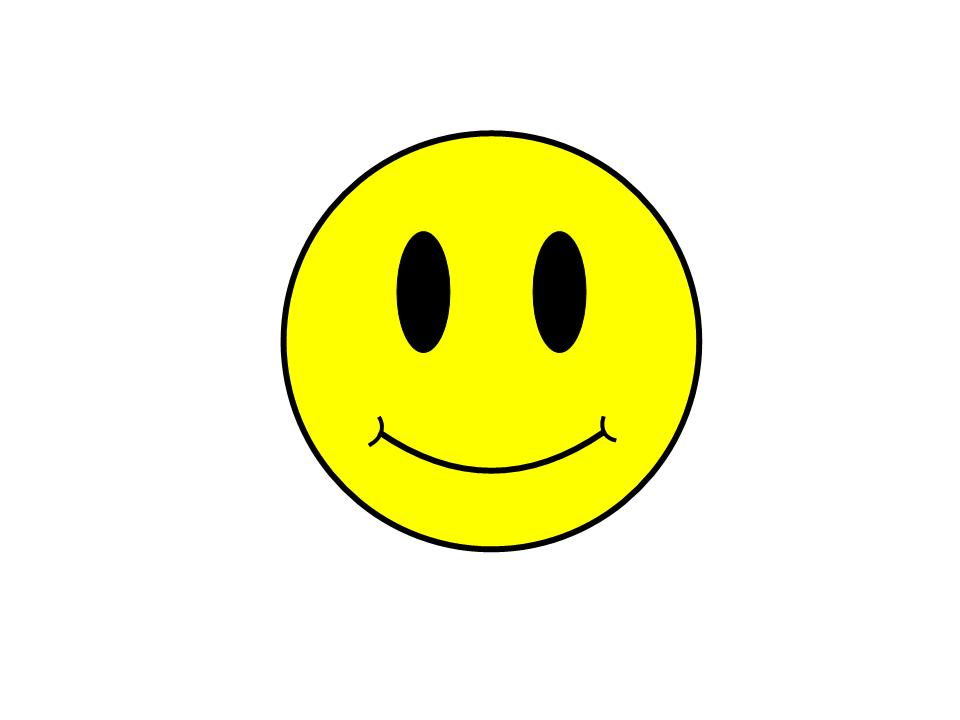 Smiley Face